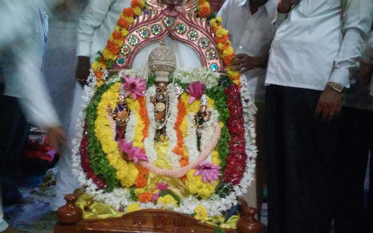 Pallakiseva